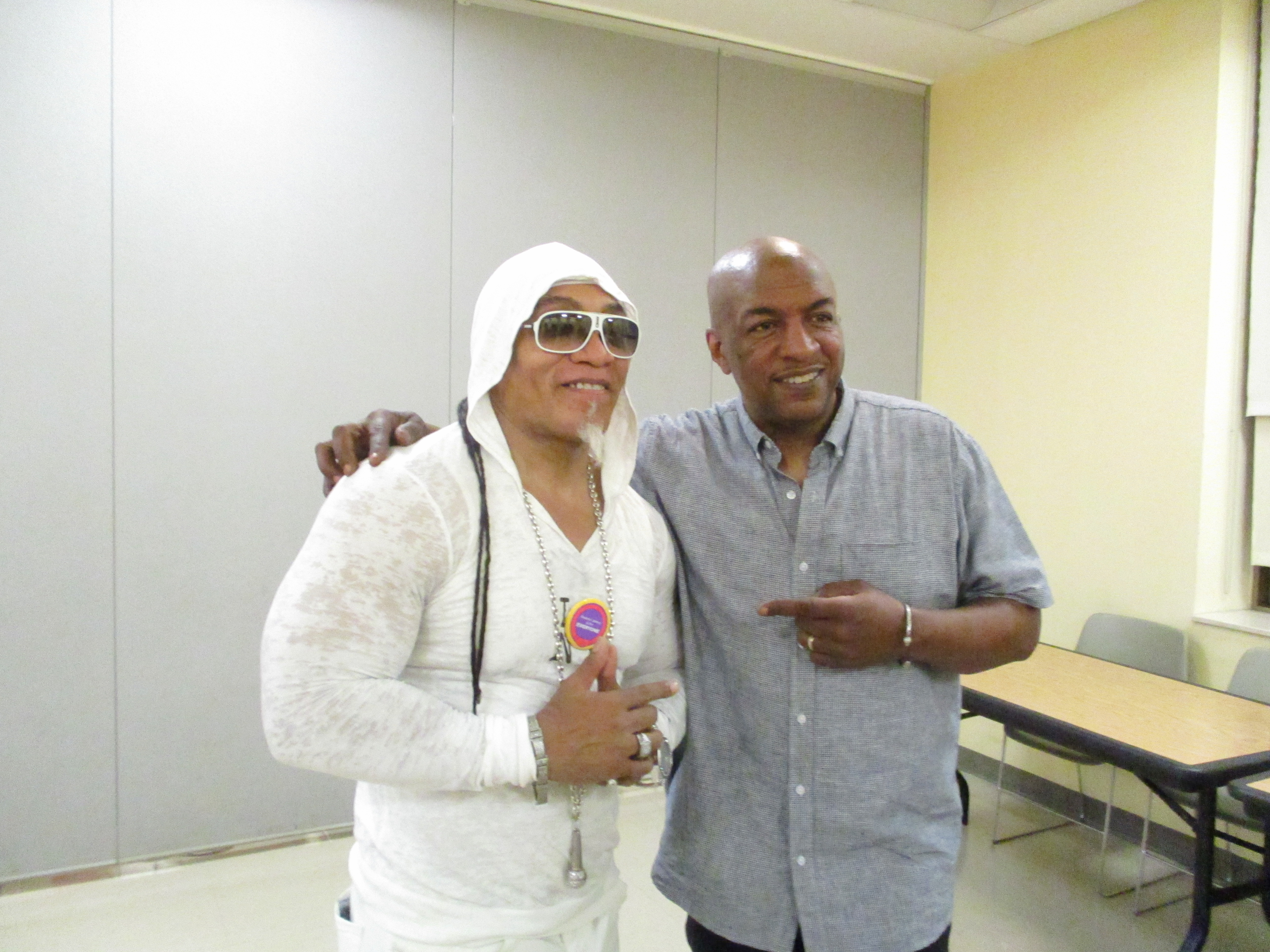 Ralph McDaniels better known as Uncle Ralph and Melvin Glover better known as Melle Mel at a celebration of Queens New York Hip Hop Music Pioneers at New York Public Library in Queens